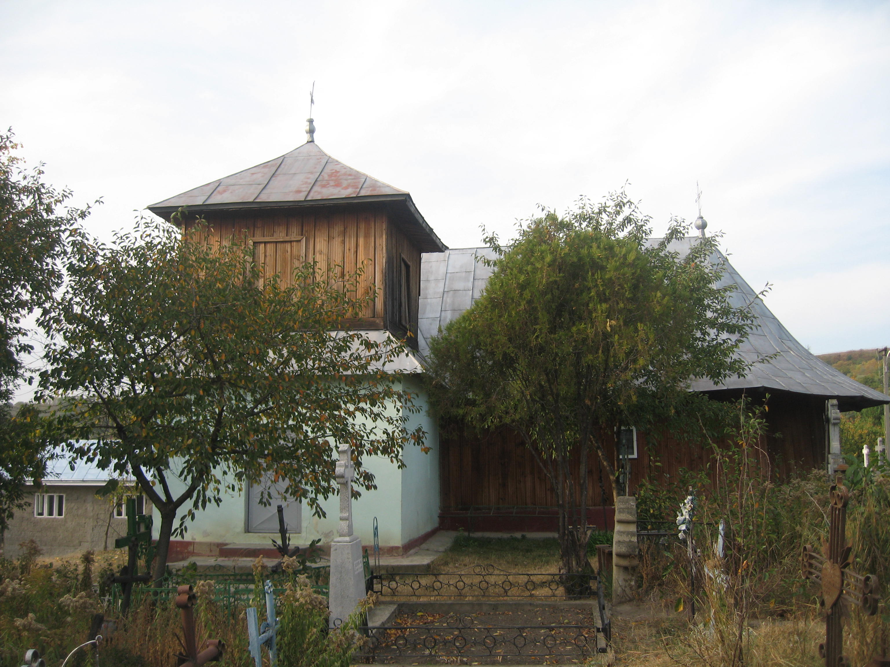 Biserica de lemn din Costeşti